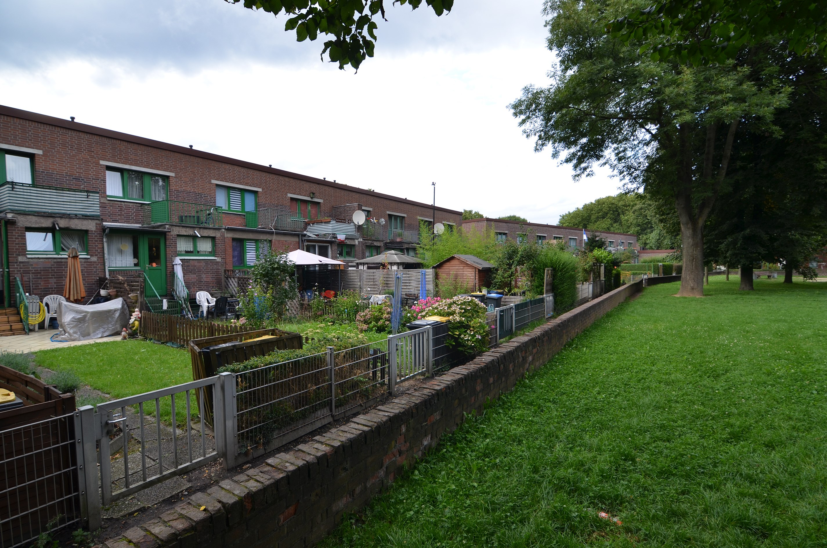 Duisburg (North Rhine-Westphalia, Germany) – borough Meiderich/Beeck, district Meiderich – Ratingsee Colony This image shows a heritage building in Germany, located in the North Rhine-Westphalian city Duisburg (no. 475). This photograph was taken with a Nikon D7000